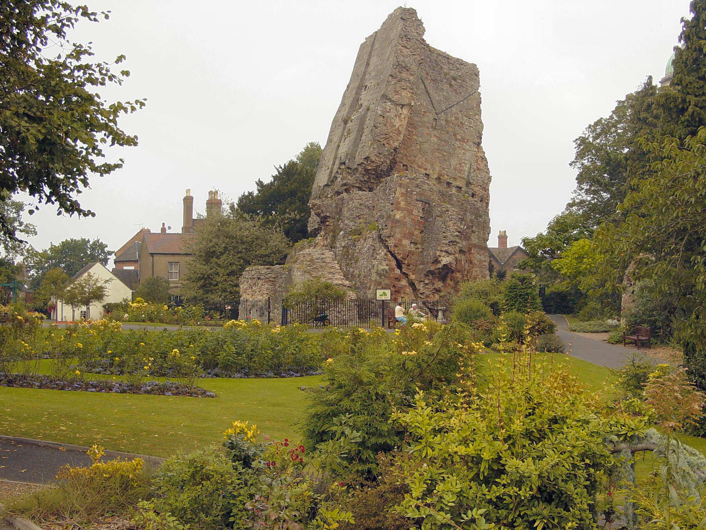 Photo taken and supplied by Brian Voon Yee Yap.